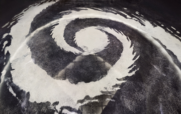 Michele Oka Doner Miami International Airport Terrazzo and Mother-of-Pearl Photo: Nick Merrick © Hedrich Blessing, 2009